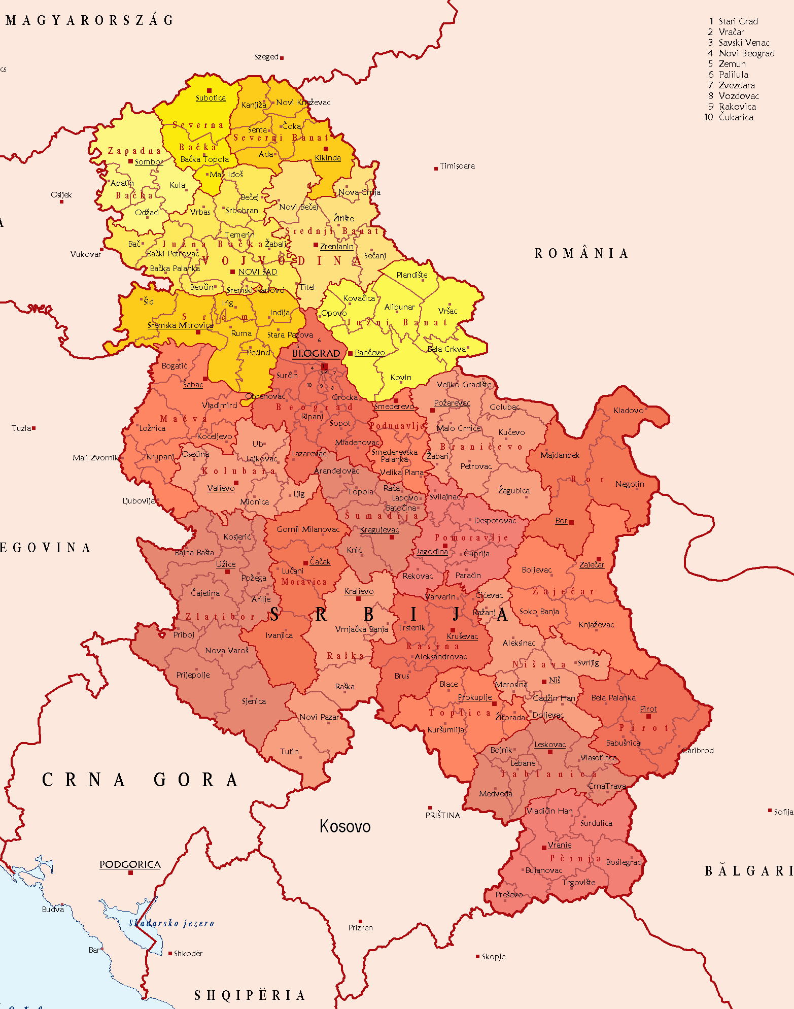 Administrative divisions of Serbia as of late February 2008